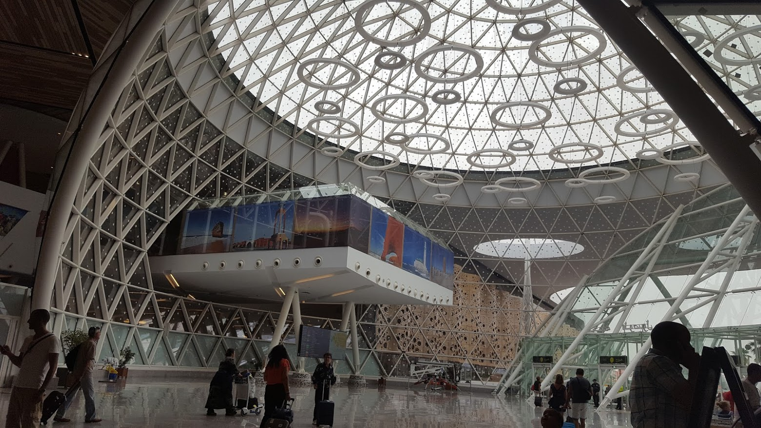 Departure hall in the new terminal of Marrakech airport